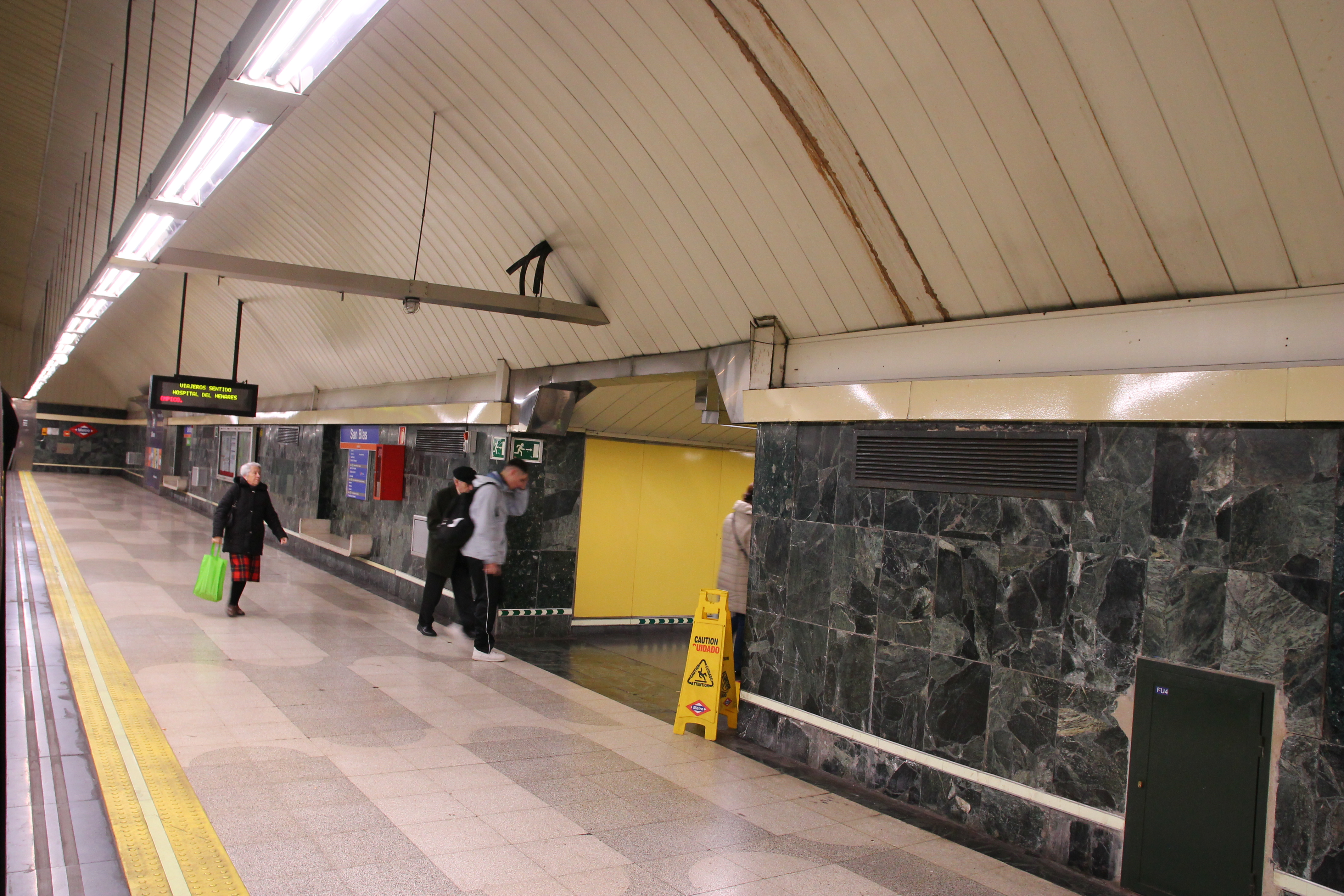 Estación de San Blas